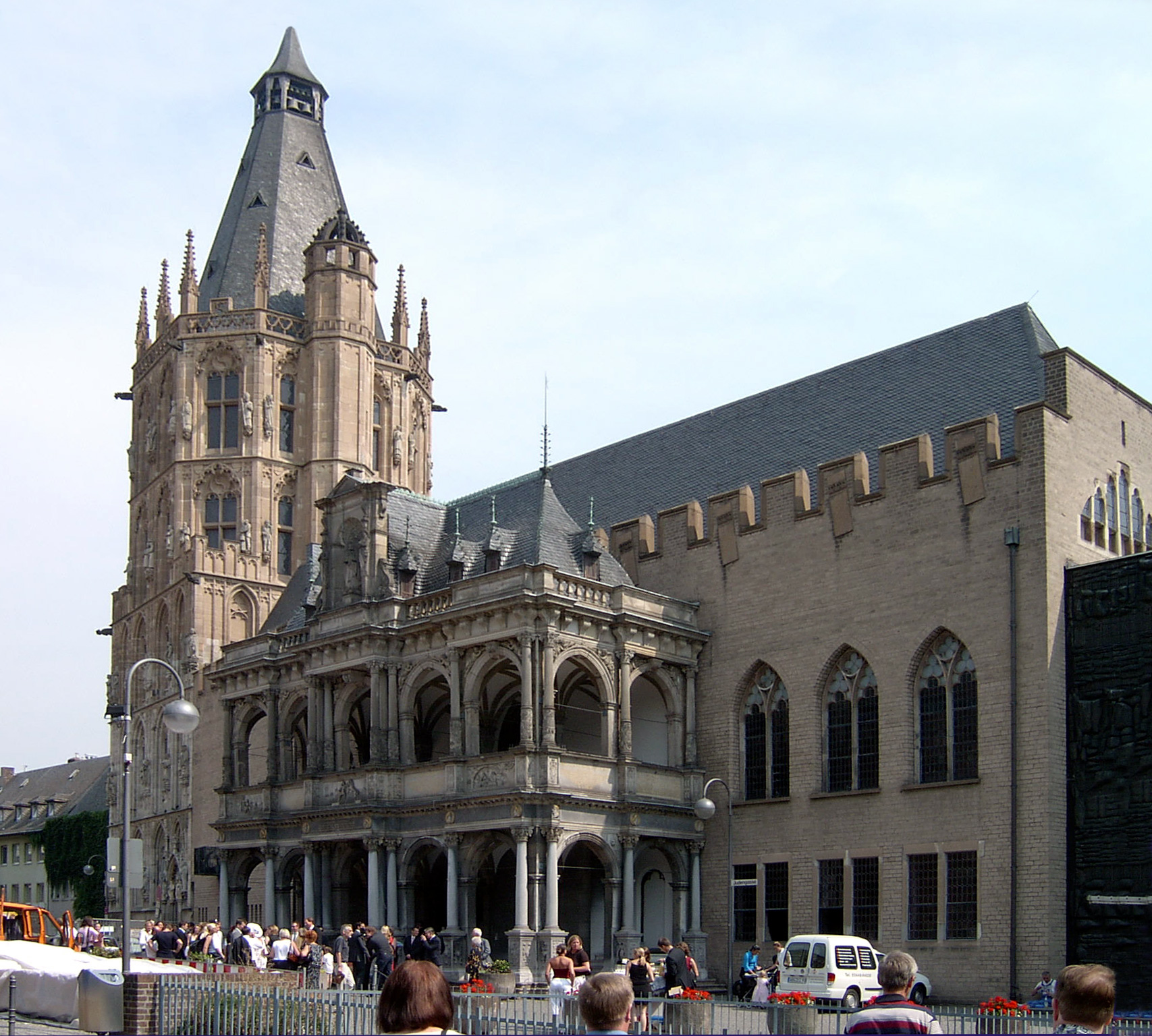 Townhall Cologne, Germany.